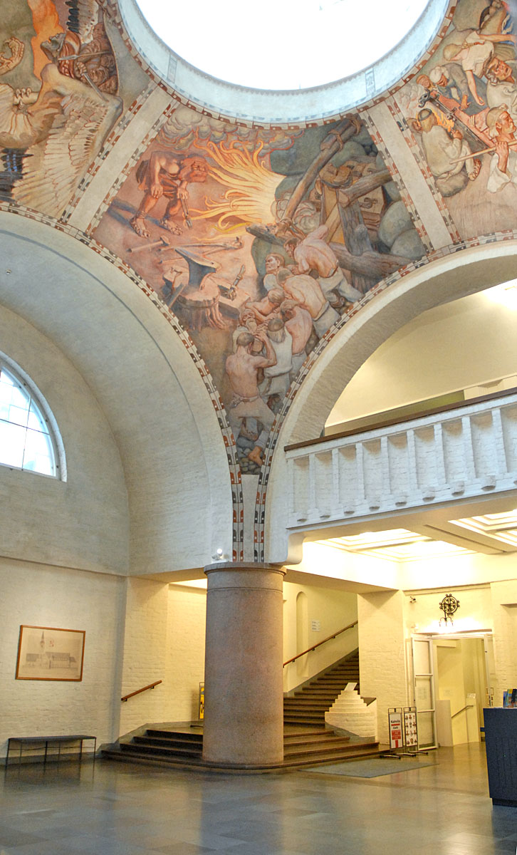 Central hall of the National Museum of Finland. Ceiling fresco by Akseli Gallen-Kallela, "Forging of Sampo".